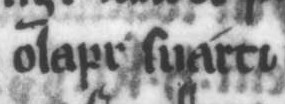 The name of Óláfr Guðrøðarson (died 1237) as it appears on folio 163r of AM 47 fol (Eirspennill): "Olafr suárti". A transcription of this excerpt appears on page 556 of: Jónsson, F, ed. (1916). Eirspennill: Am 47 Fol. Oslo: Julius Thømtes Boktrykkeri.